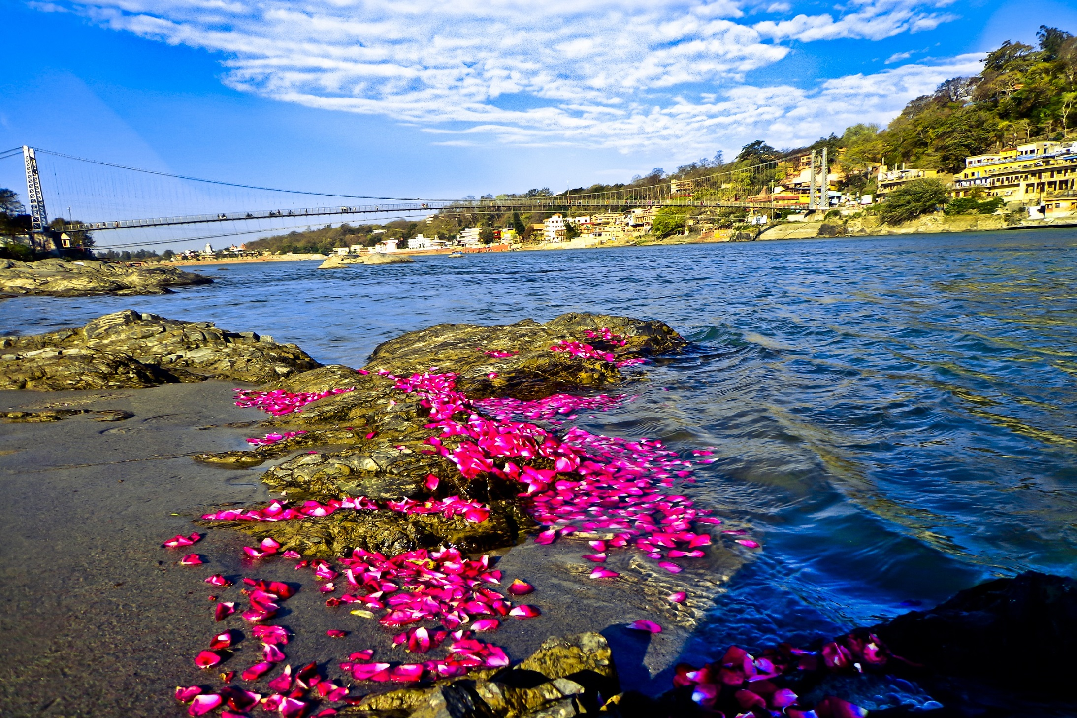 The Ganges, also Ganga is a trans-boundary river of Asia which flows through the nations of India and Bangladesh. The 2,525 km (1,569 mi) river rises in the western Himalayas in the Indian state of Uttarakhand, and flows south and east through the Gangetic Plain of North India into Bangladesh, where it empties into the Bay of Bengal. It is the third largest river in the world by discharge. Clicked at Rishikesh, Uttarakhand.